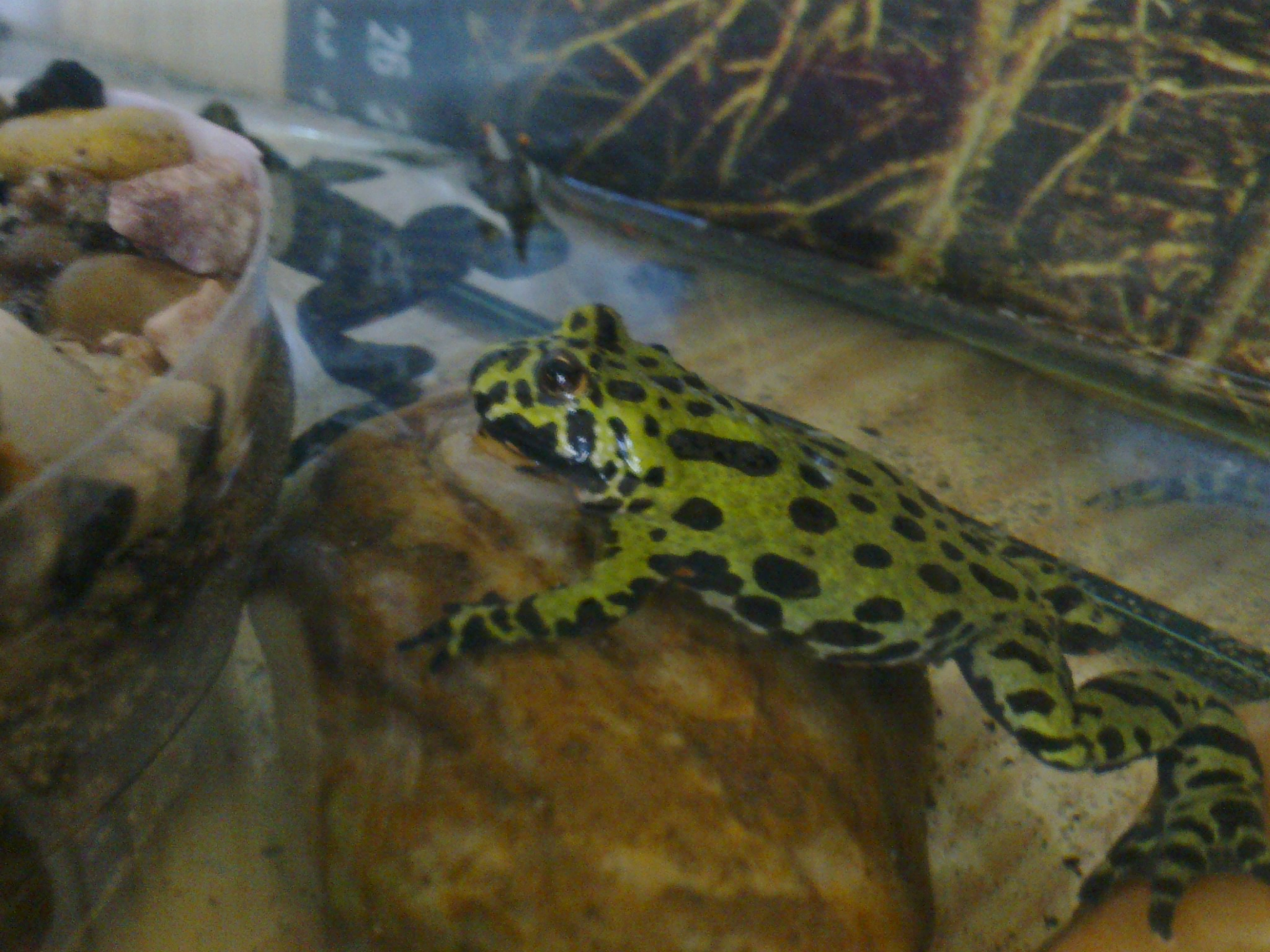 My photography of the frog - bombina orientalis